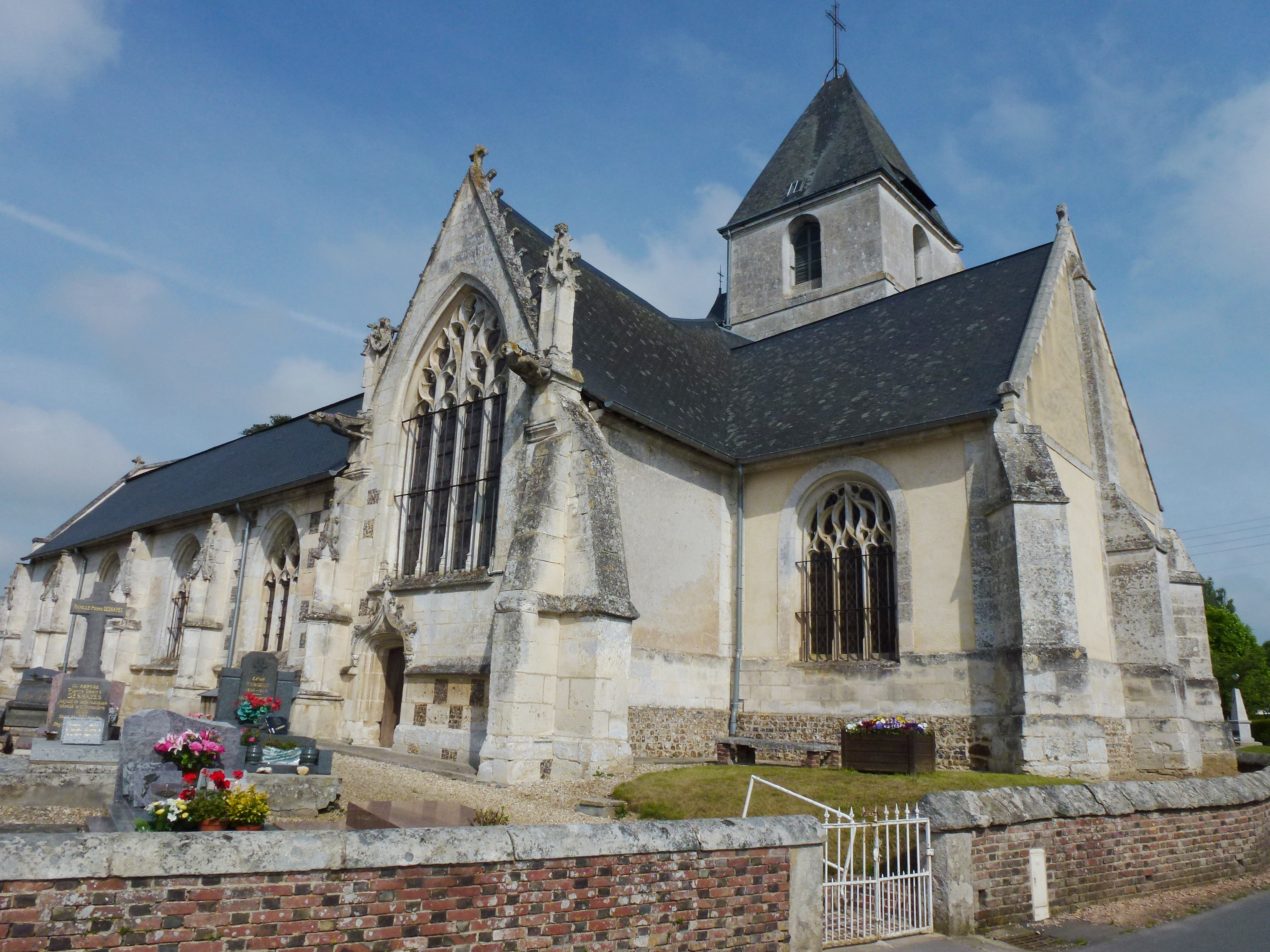 Plasnes (Eure, Fr) église Saint-Sulpice